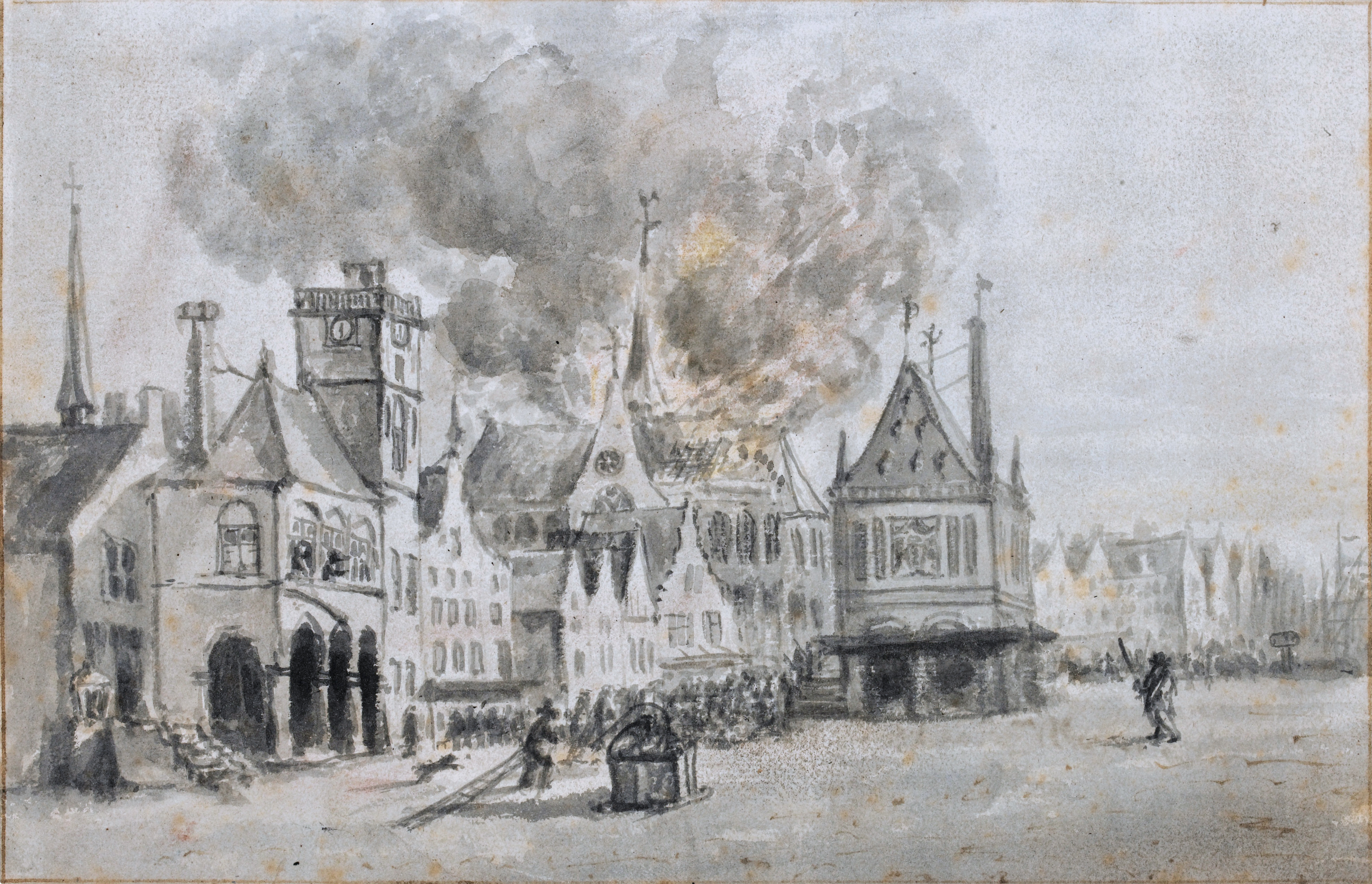 The fire in the Nieuwe Kerk, Amsterdam, in 1645